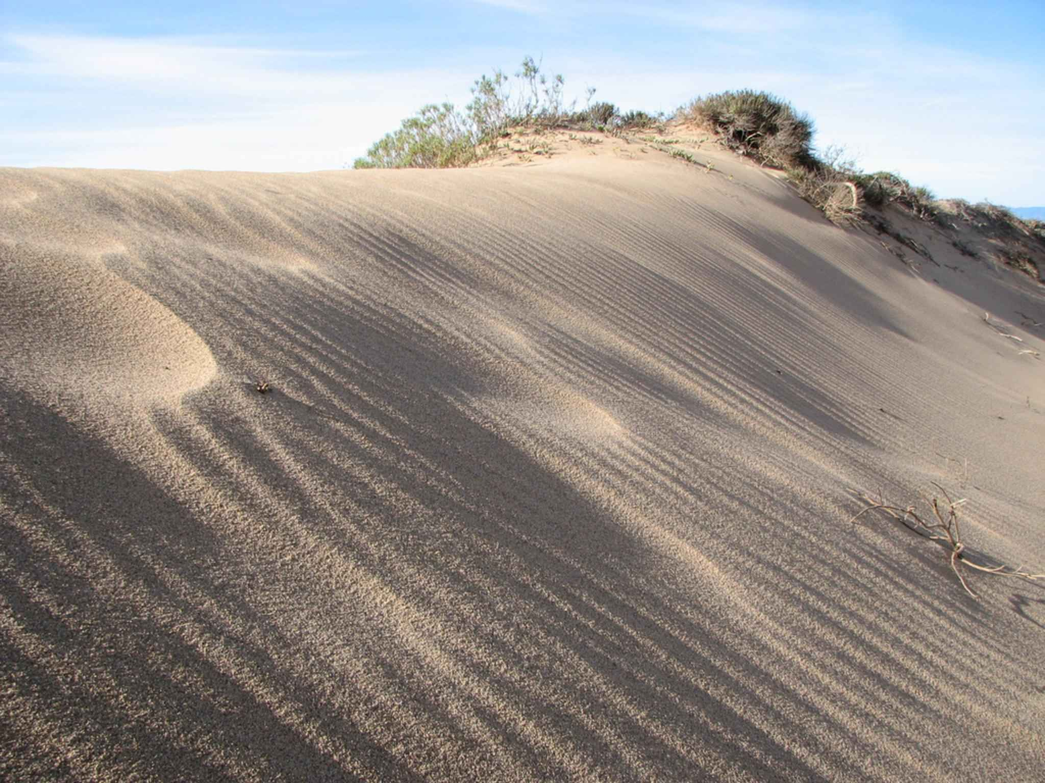 Image title: Scenic paradise beach sand dune Image from Public domain images website